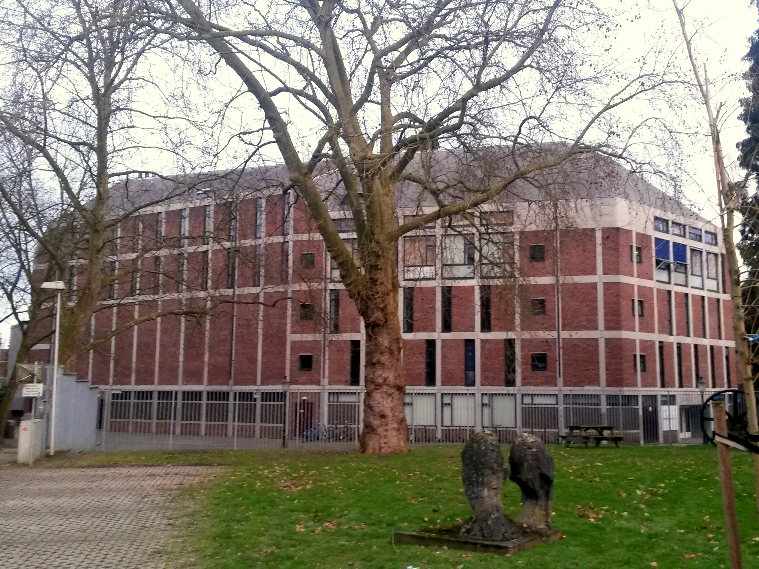 20150207 Conservatory Maastricht.